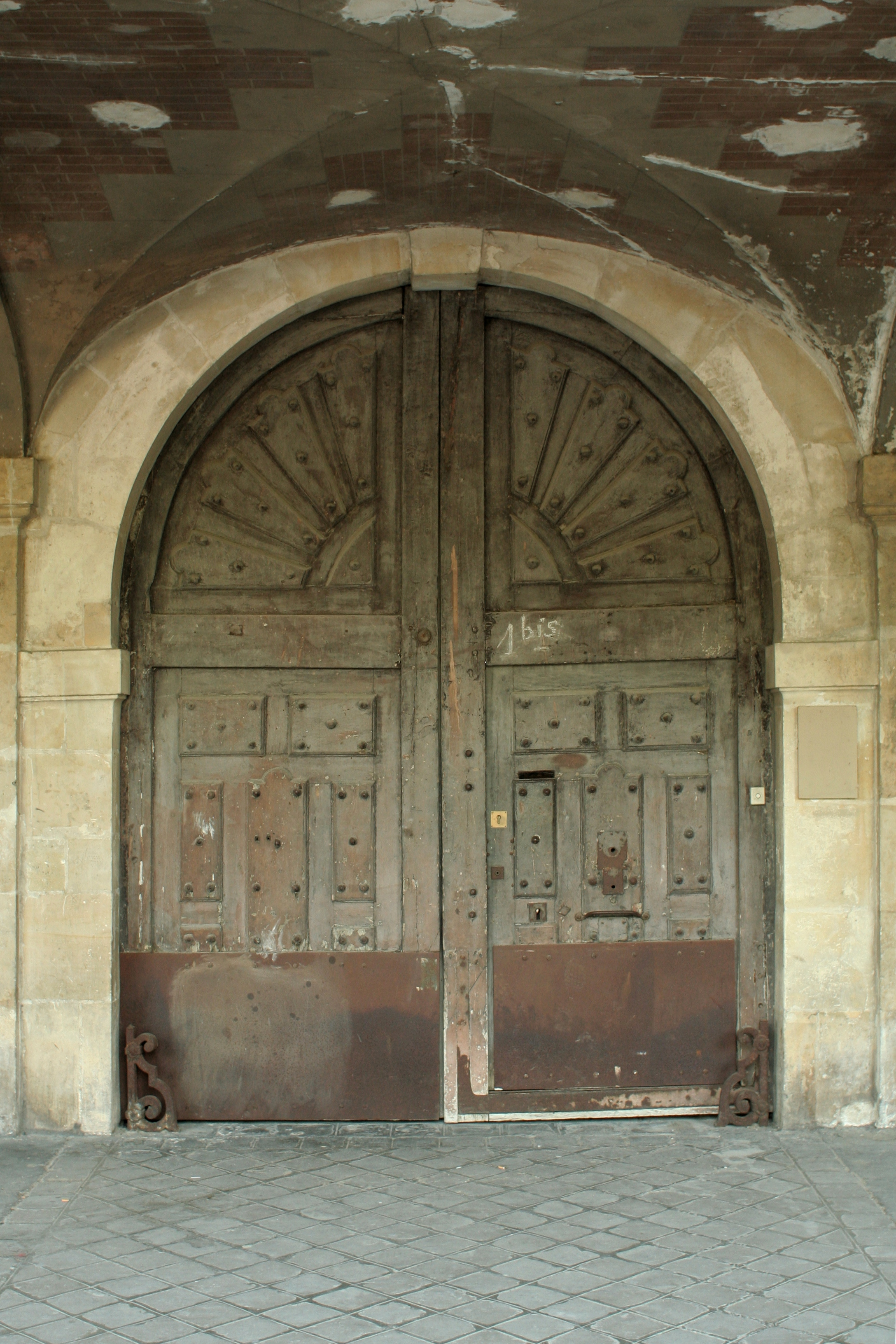 Door of 1 bis Place des Vosges, Paris.